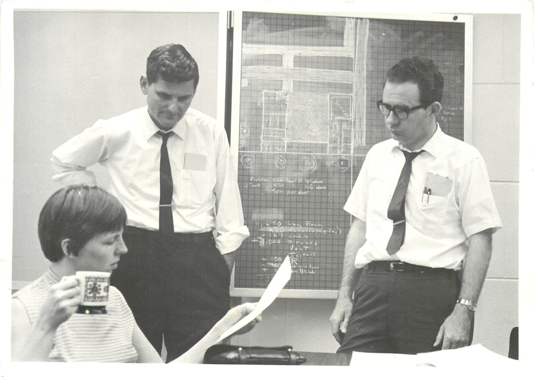 Gerald (Jerry) McClearn, John DeFries and Nancy at the founding of the Institute for Behavior Genetics (IBG), taken in the Fall of 1967